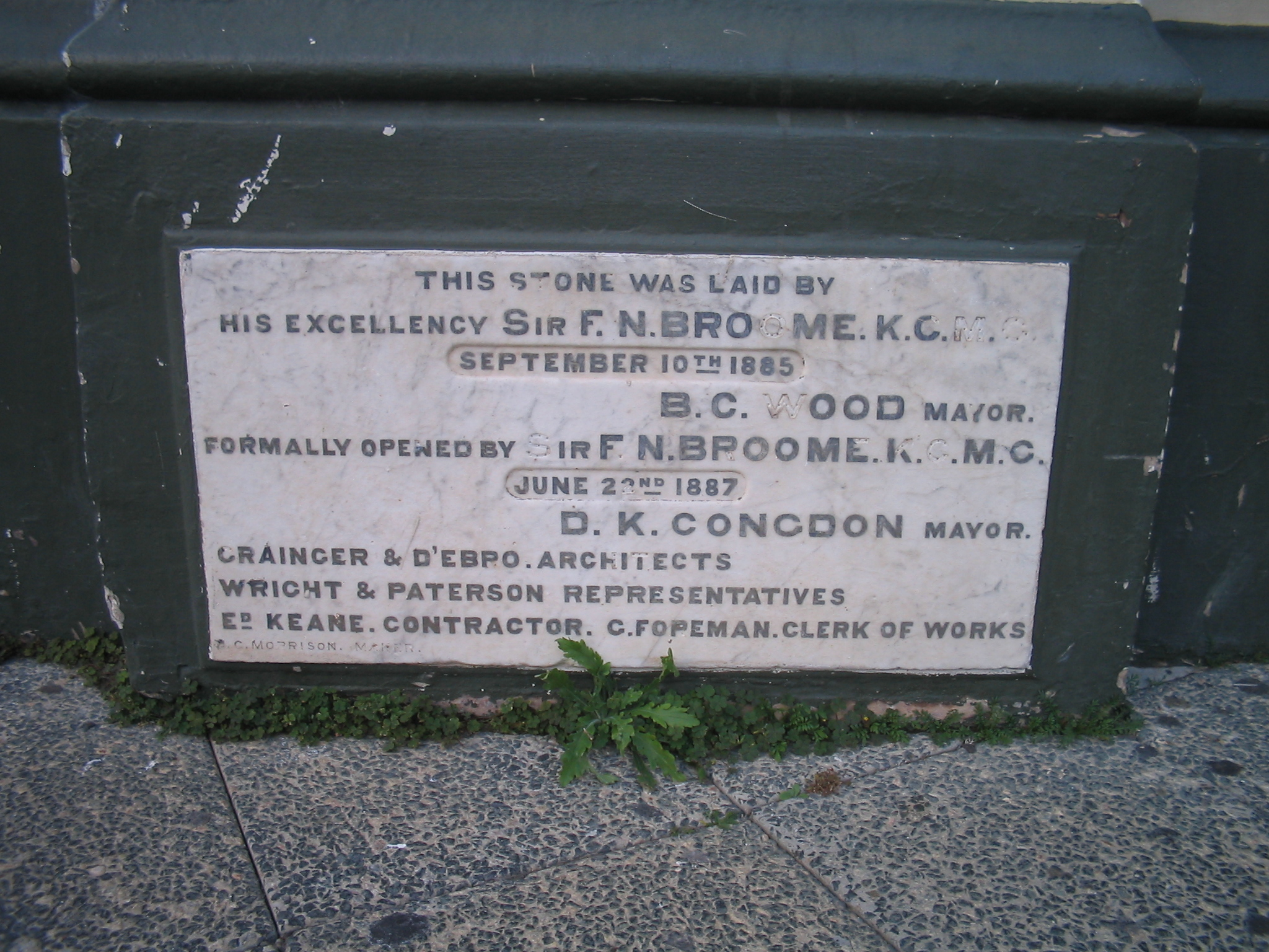 Fremantle Town Hall